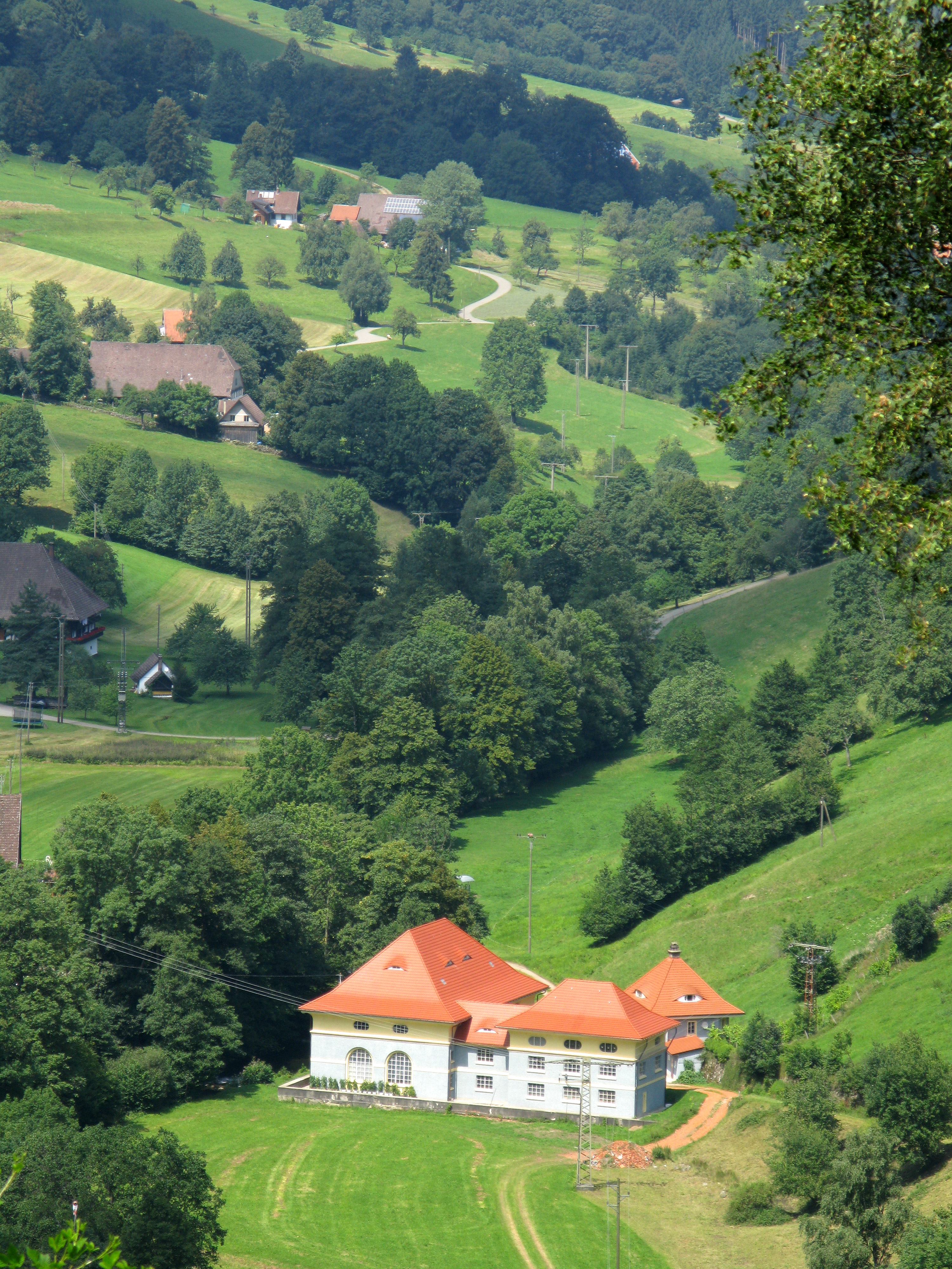 Power station at the Zweribach in the valley of Simonswald